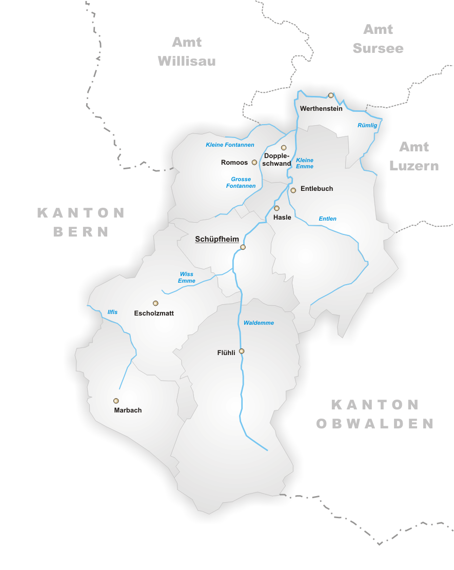 Municipalities of District Entlebuch